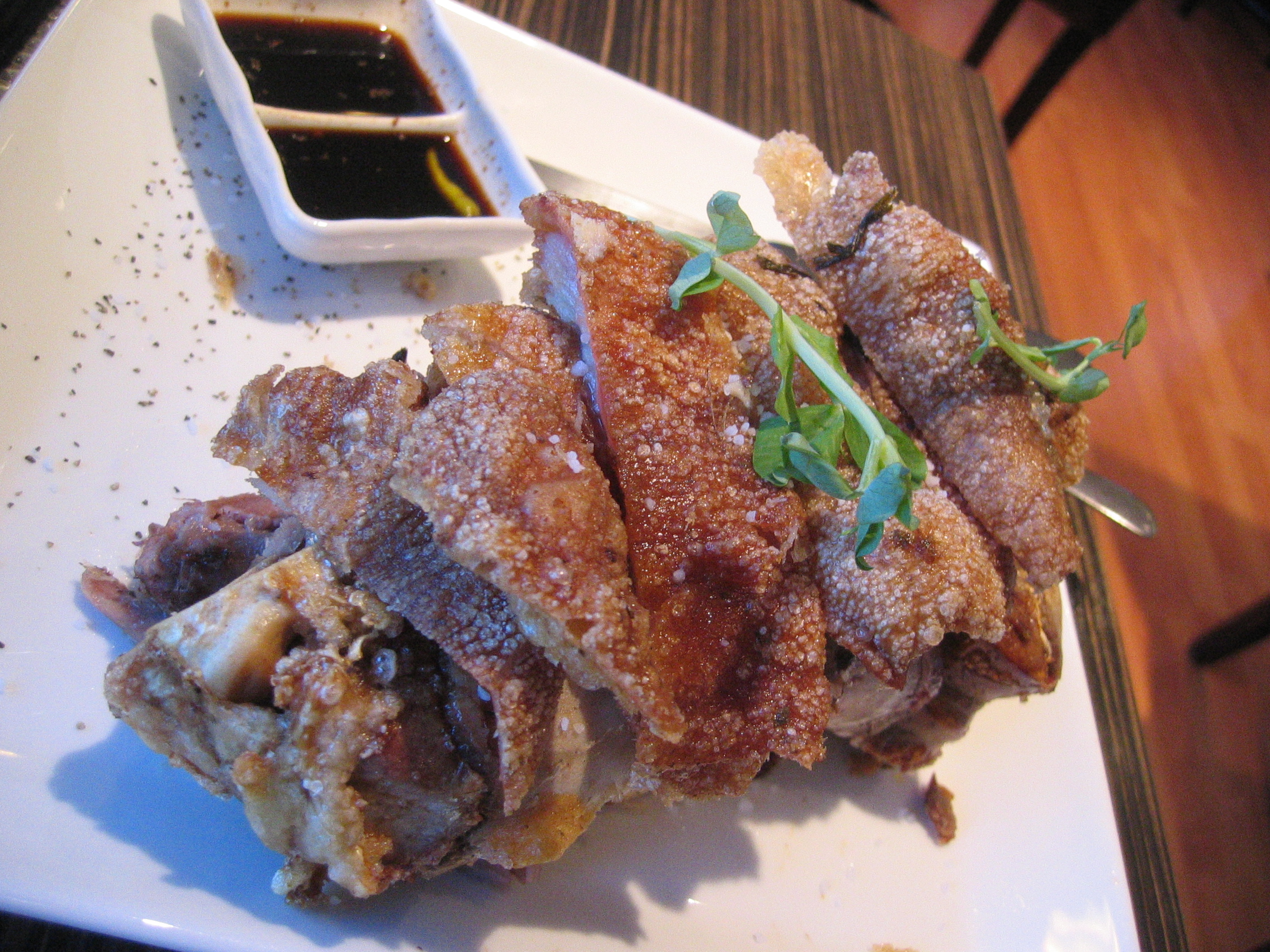 Crispy pata from Rekados.